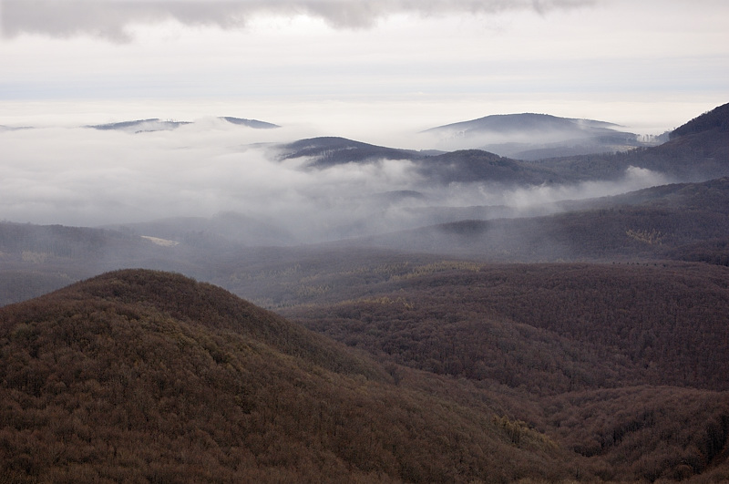 Fog over the Little Carpathians